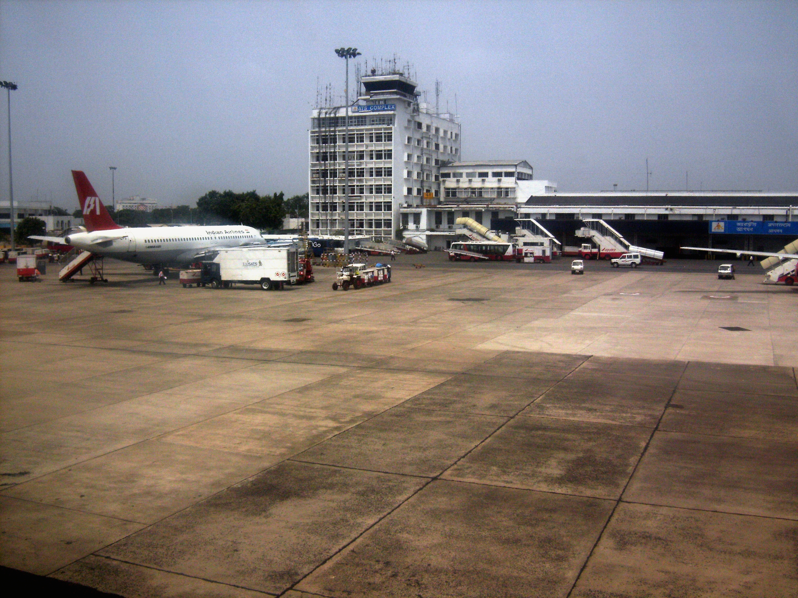 Netaji Subhash Chandra Bose International Airport